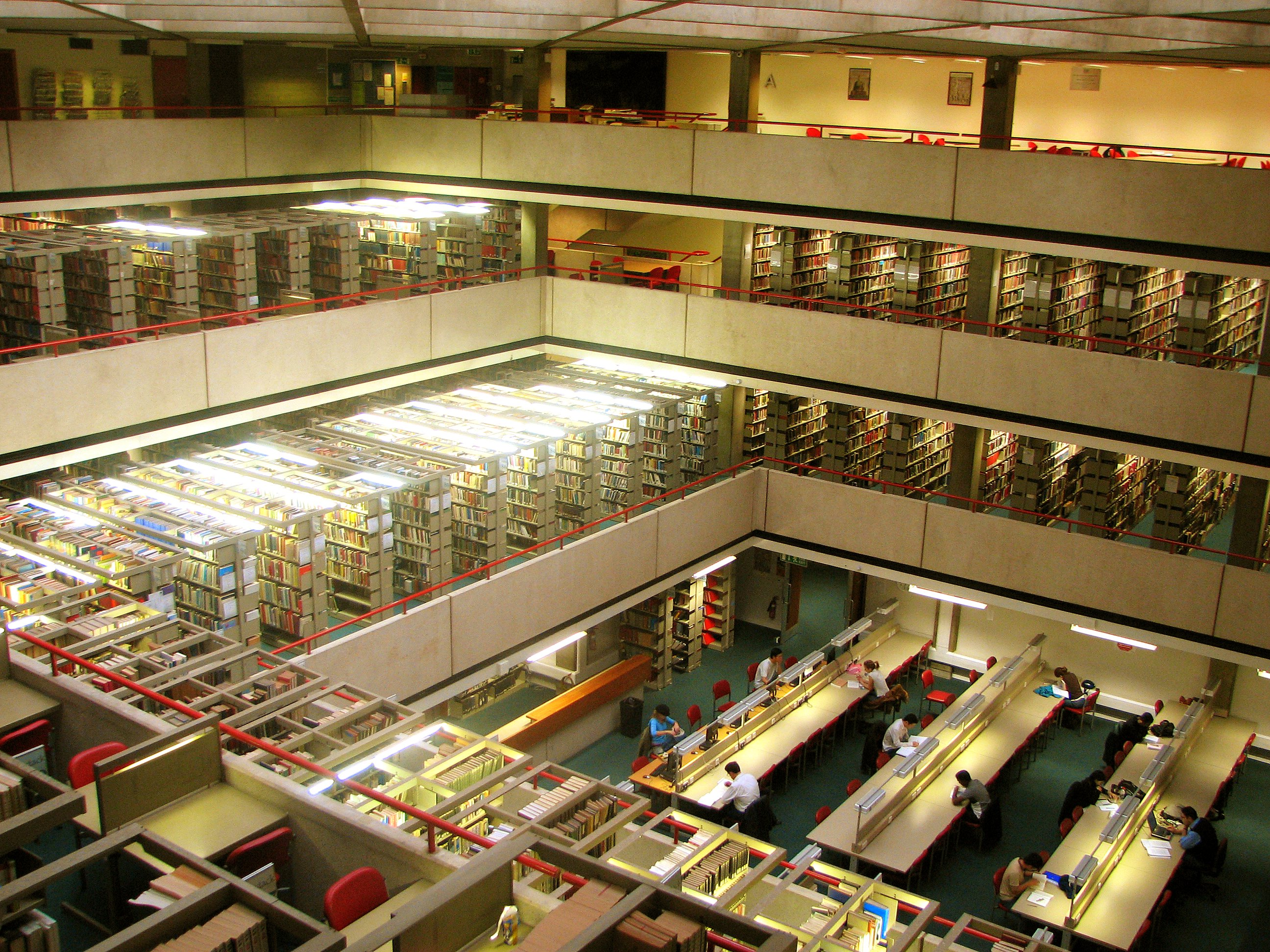 Description: Interior view of SOAS library Medium: Color photograph Location: London, UK Date: November 3, 2005 Author: Alexander Marks (aomarks) Camera: Canon PowerShot S2 License: Public domain